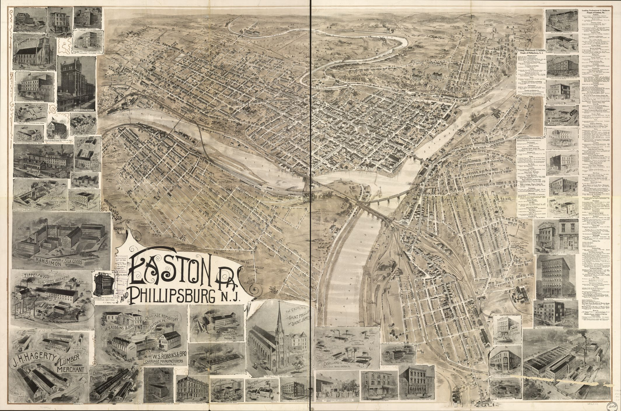 Birds-eye view of Easton PA, circa 1900